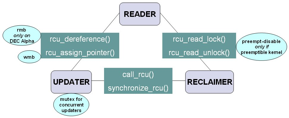 Suzanne Wood based on diagram in